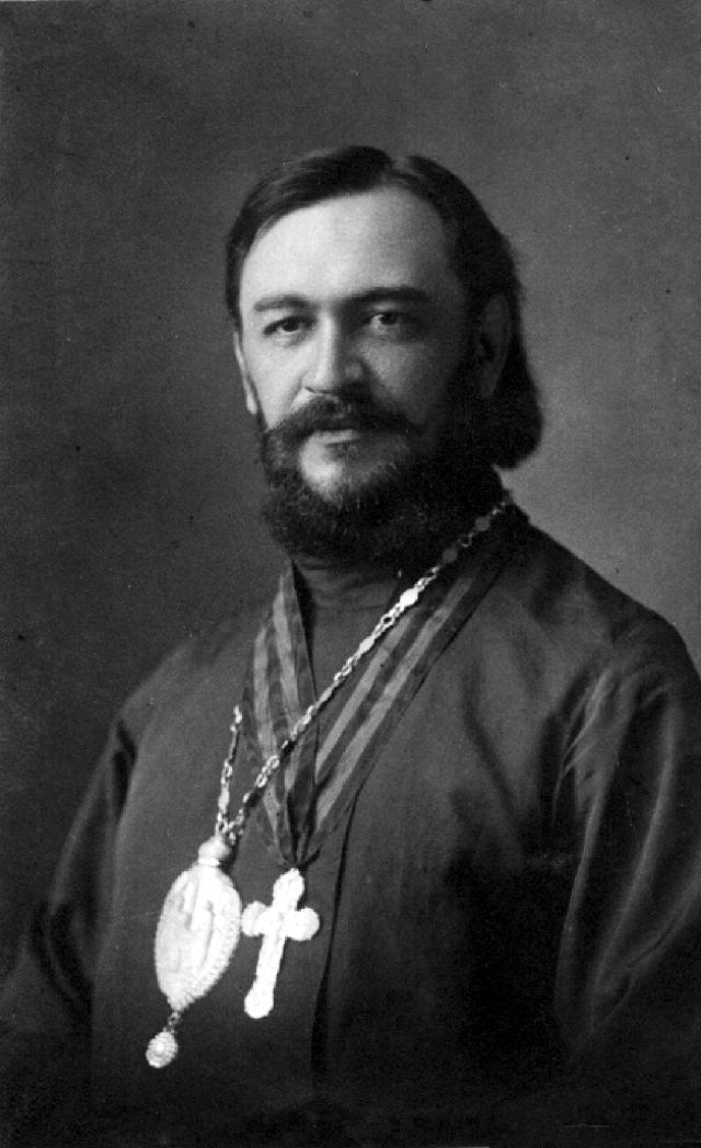 Bishop Nestor (Anisimov), Russian Orthodox Church